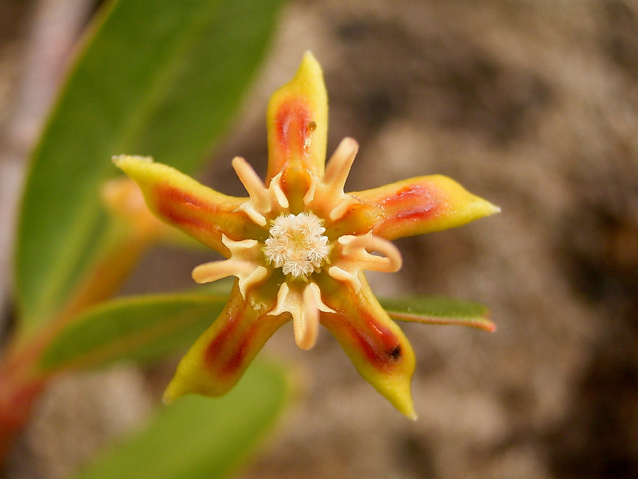 Periploca laevigata growing in San Andrés y Sauces, La Palma, Canary Islands